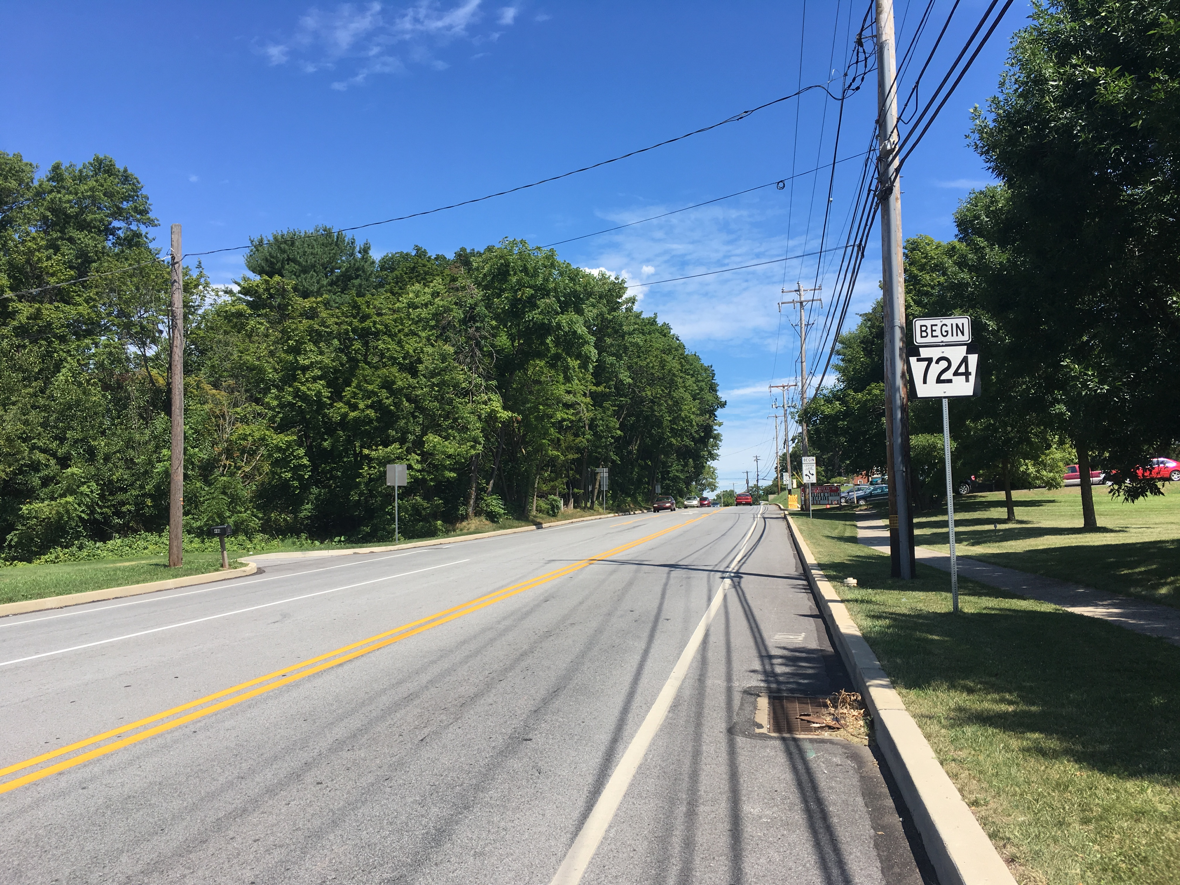 Westbound Pennsylvania Route 724 (Schuylkill Road) past its eastern terminus at Pennsylvania Route 23 (Ridge Road/Schuylkill Road) in East Pikeland Township, Pennsylvania